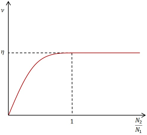 imitation cost function, technoology diffusion model